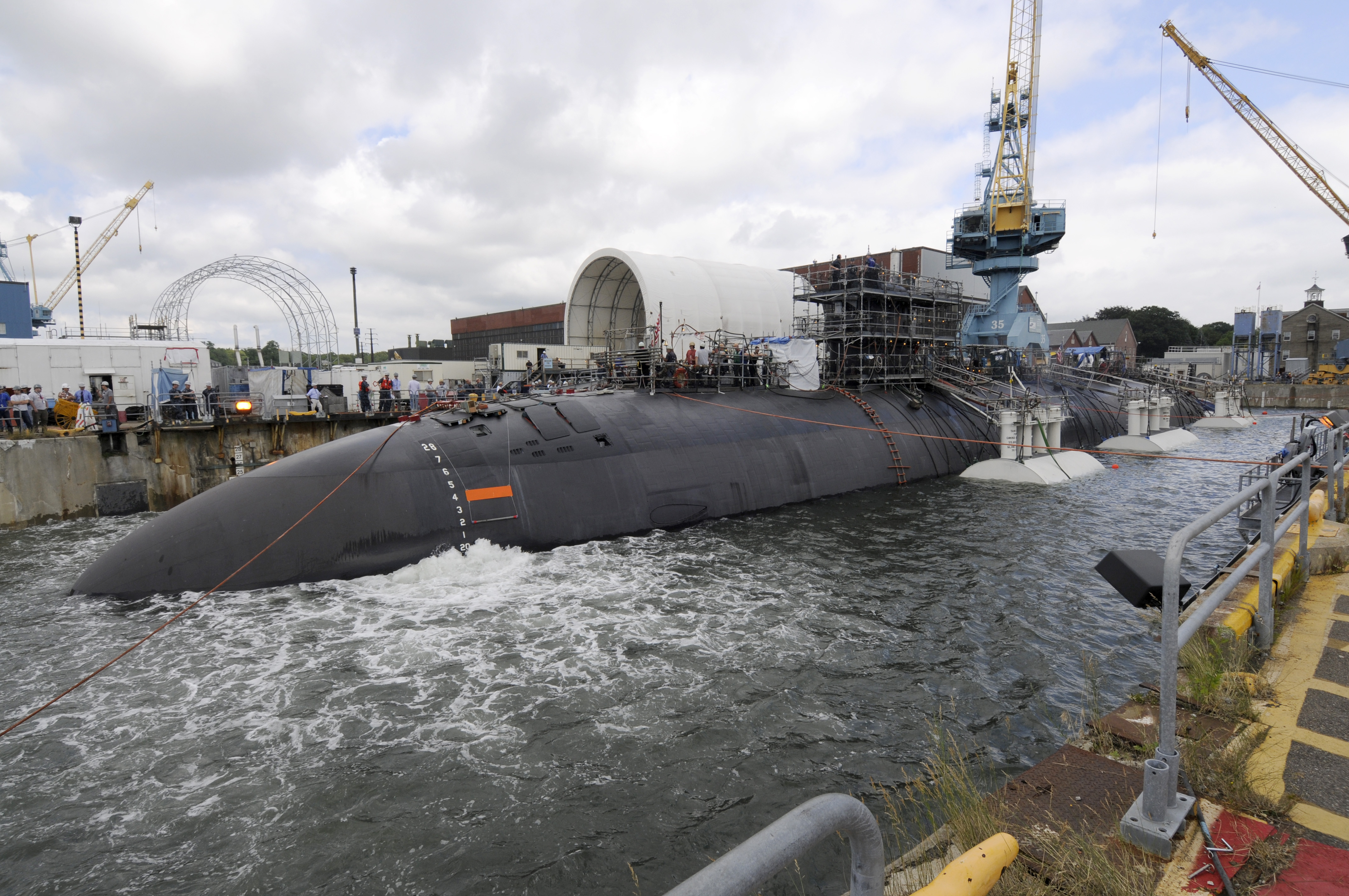 KITTERY, Maine (Aug. 4, 2011) Shipyard workers at Portsmouth Naval Shipyard successfully undock the Los Angeles-class submarine USS San Juan (SSN 751) one day early from a routine engineered overhaul. The shipyard is a field activity of Naval Sea Systems Command and is committed to maximizing the material readiness of the Fleet by ensuring every ship is ready to respond to the Navy's mission.